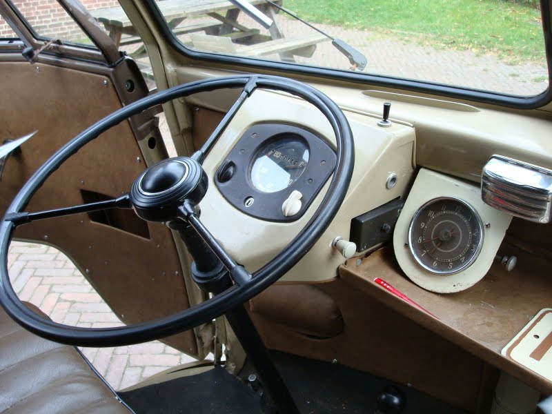 1952 VW Barndoor brown interior